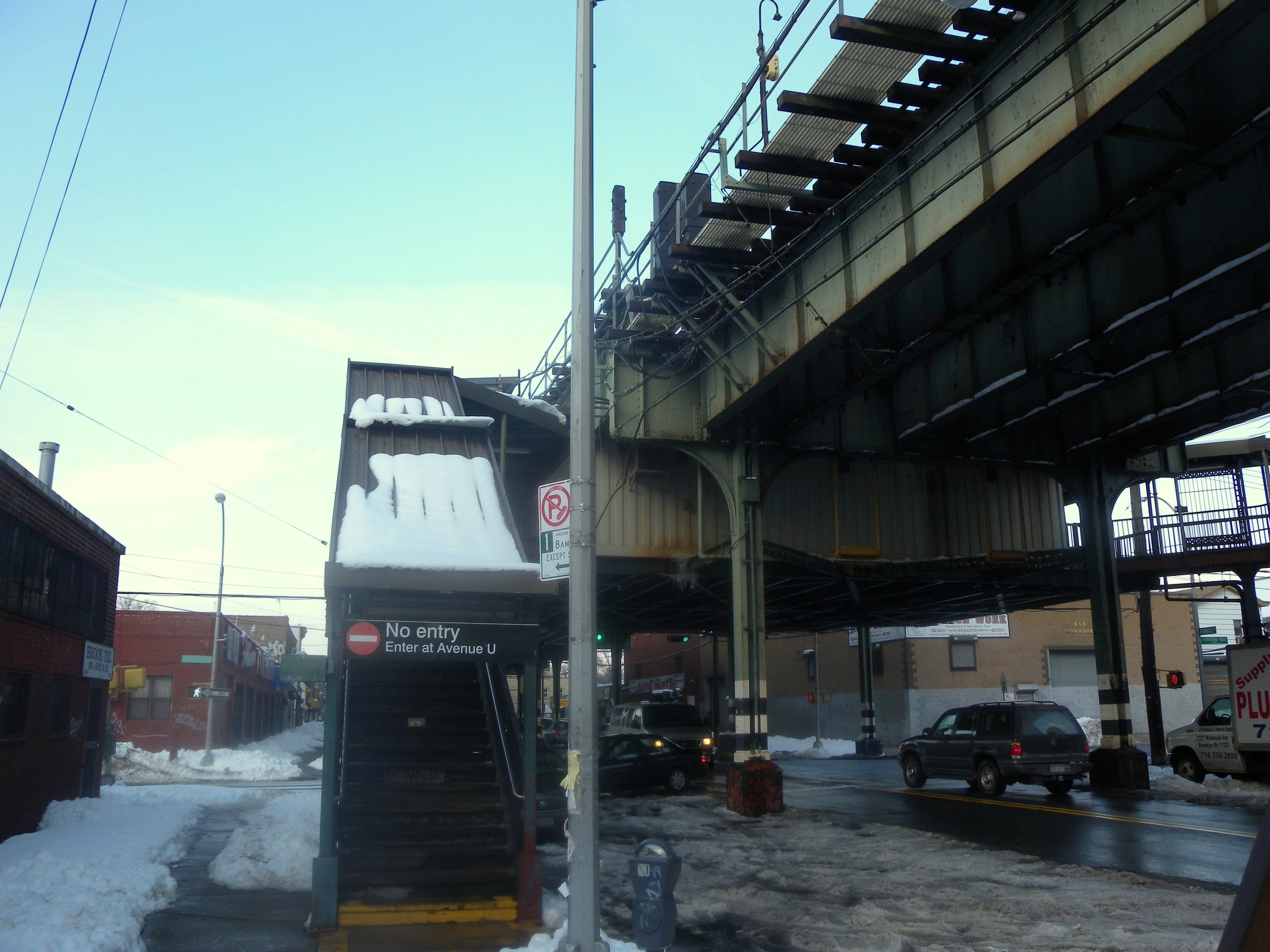 Looking north at southwest exit of Avenue U station on a mostly cloudy afternoon.